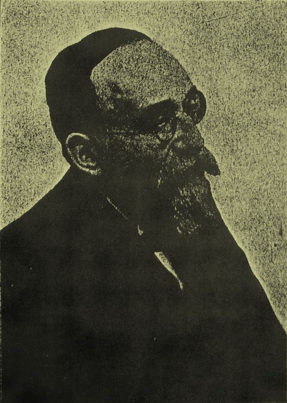 The Jakob Freimann (1866-1937) pictured as the chief rabbi of Berlin, around 1930.